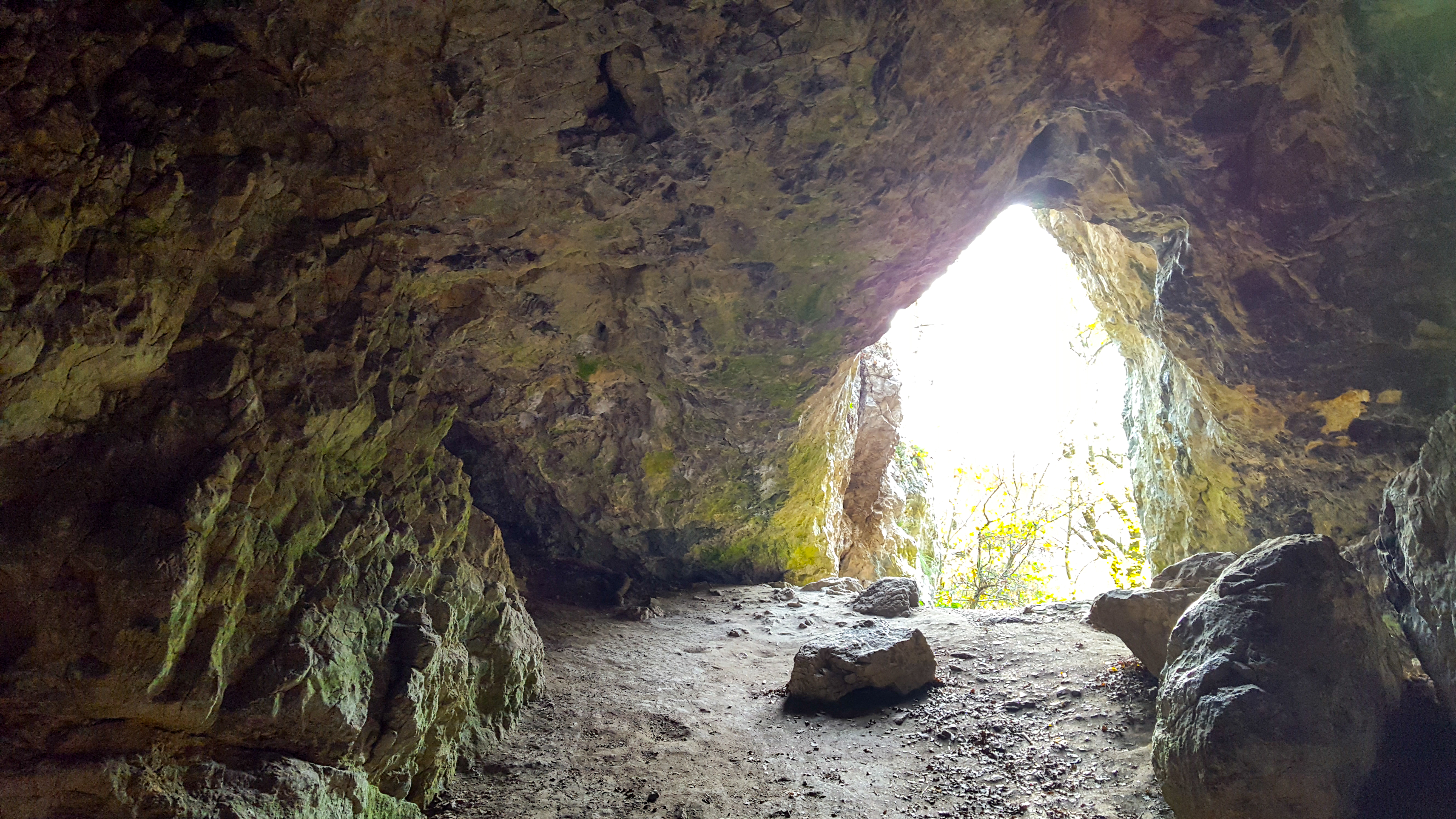 Remete-barlang a nagykovácsi Remete-szurdokban